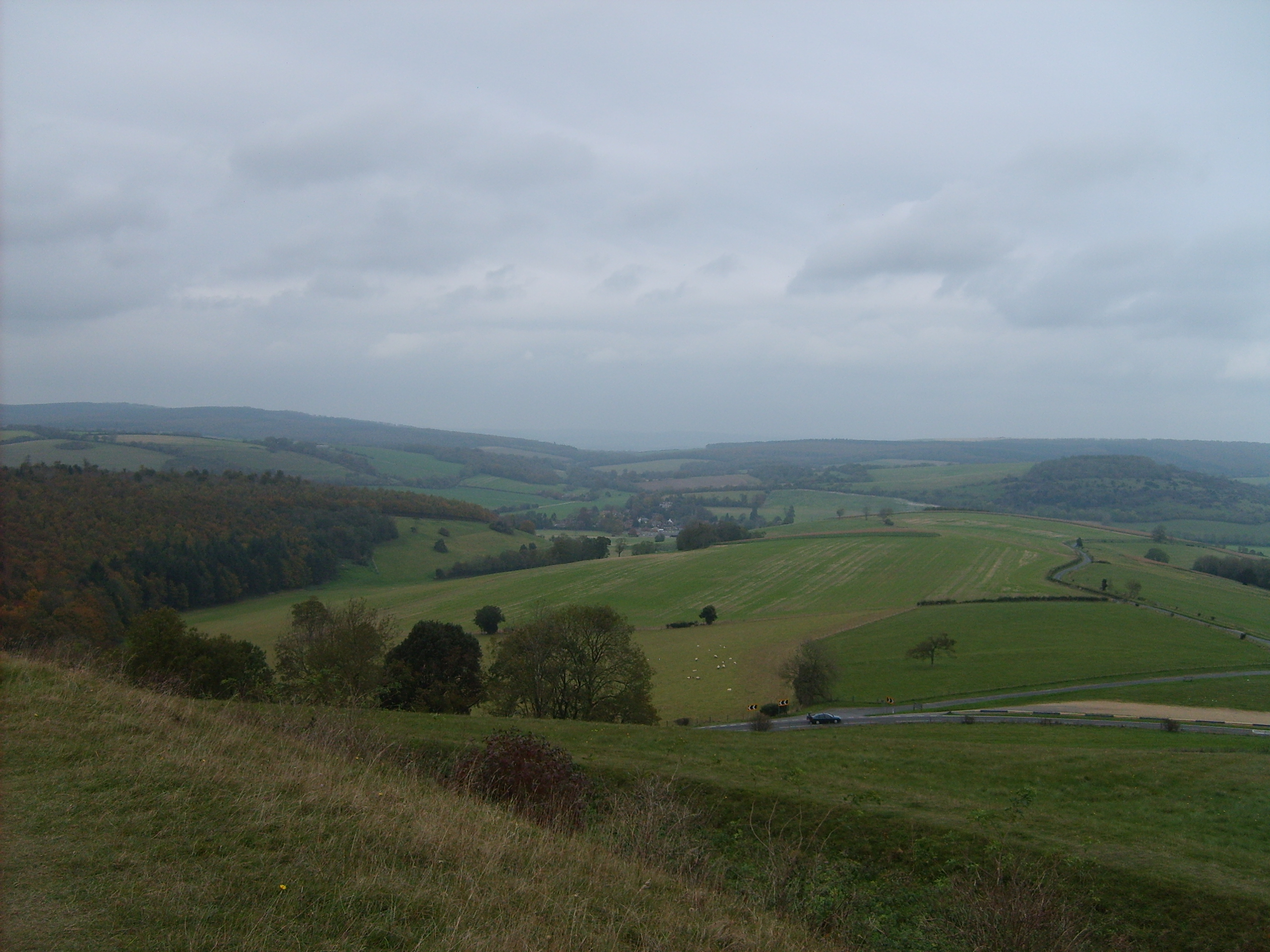 View from the rampart of The Trundle hillfort, West Sussex, UK.